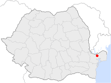 Location of Tulcea in Romania.